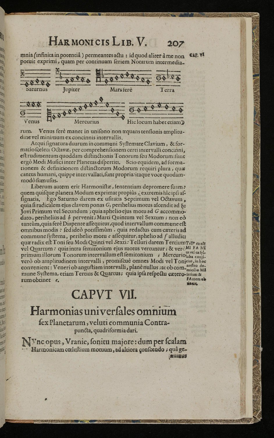 Scan of a first edition of Johannes Kepler's Harmony of the World. Page contains the musical scales that Kepler attributed to the six known planets of the time, and the moon, which described their orbital motion.